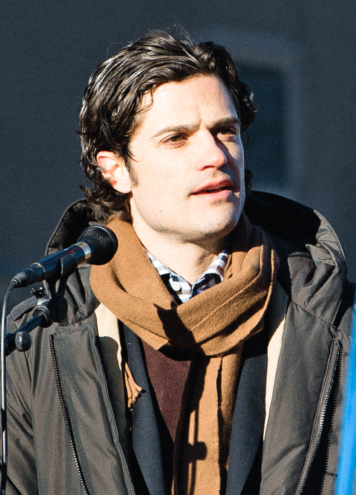 The Duke of Värmland holding a speech